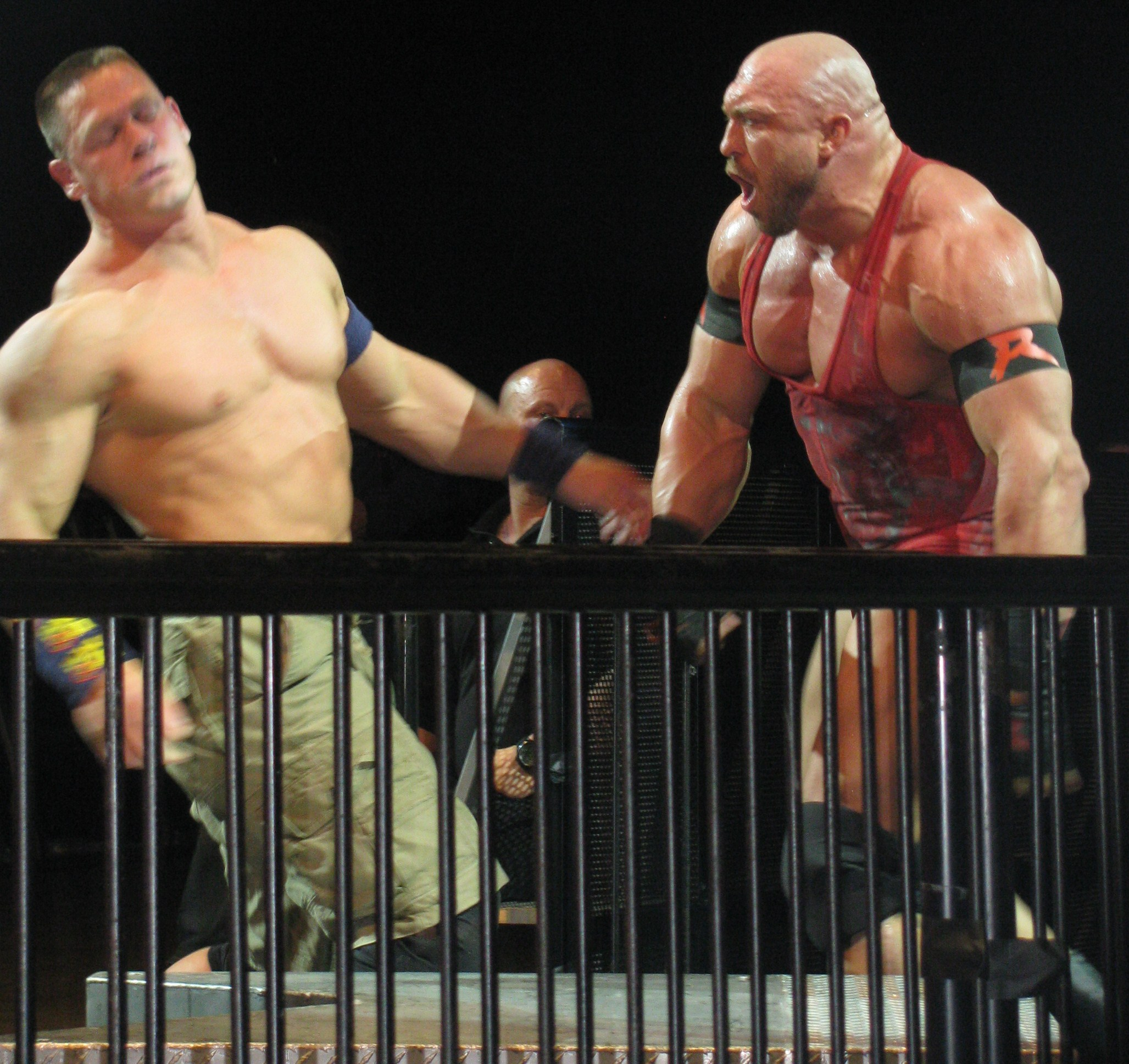 John Cena battles Ryback during a WWE house show in Adelaide, South Australia on the 29 July 2013.